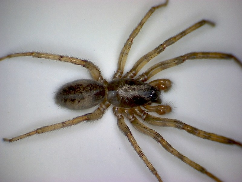 Segestria senoculata, male. Location: The Netherlands - Middelburg - Binnenstad